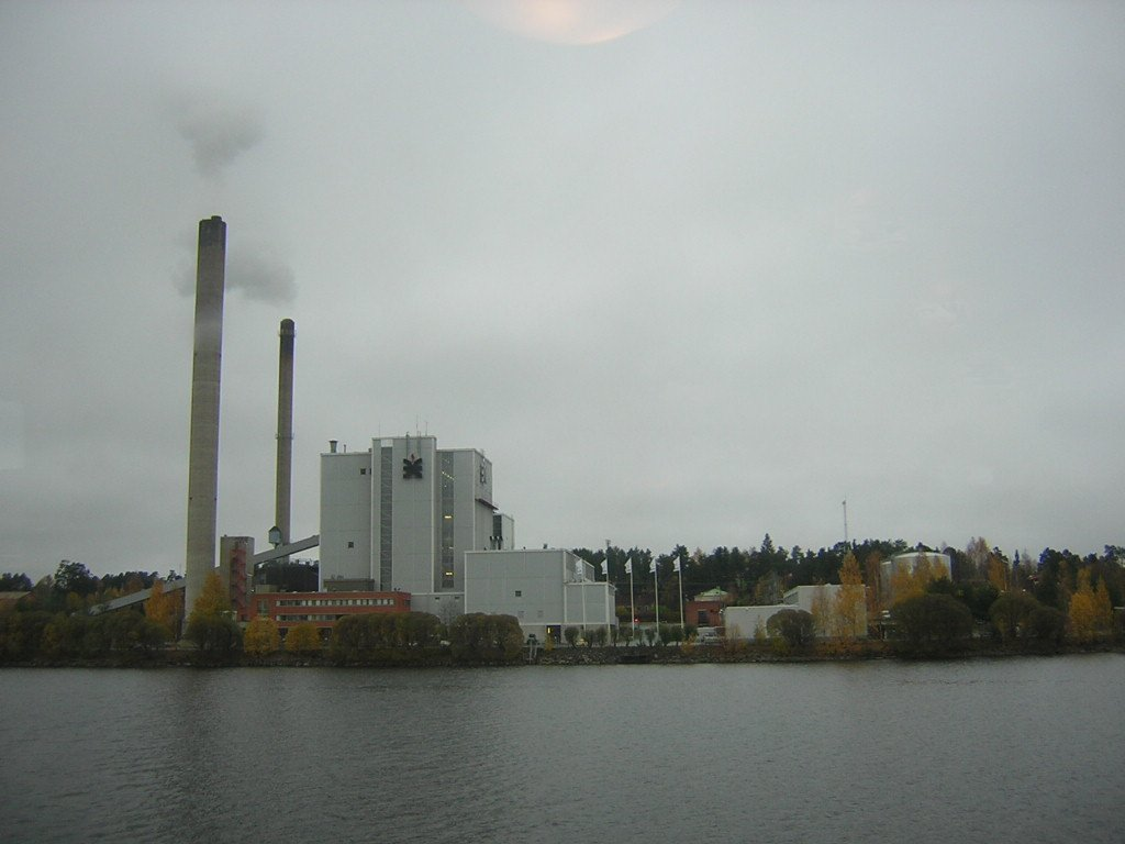 Haapaniemi Power Plant in Kuopio, Finland